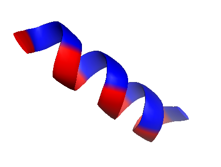 Colour coding of nonpolar/polar amino acids of an alpha helix